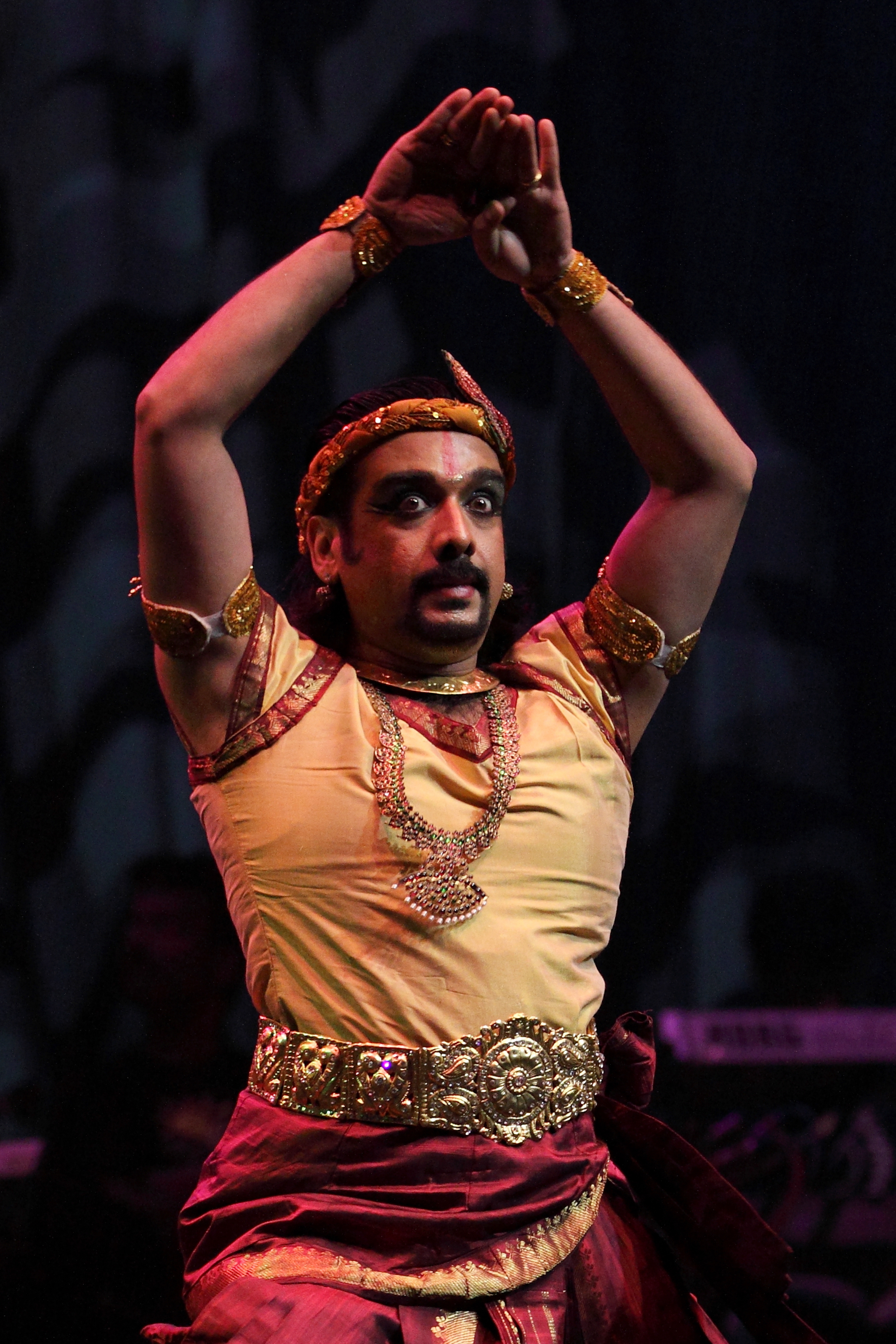 This media file is uploaded with Malayalam loves Wikimedia event - 2.